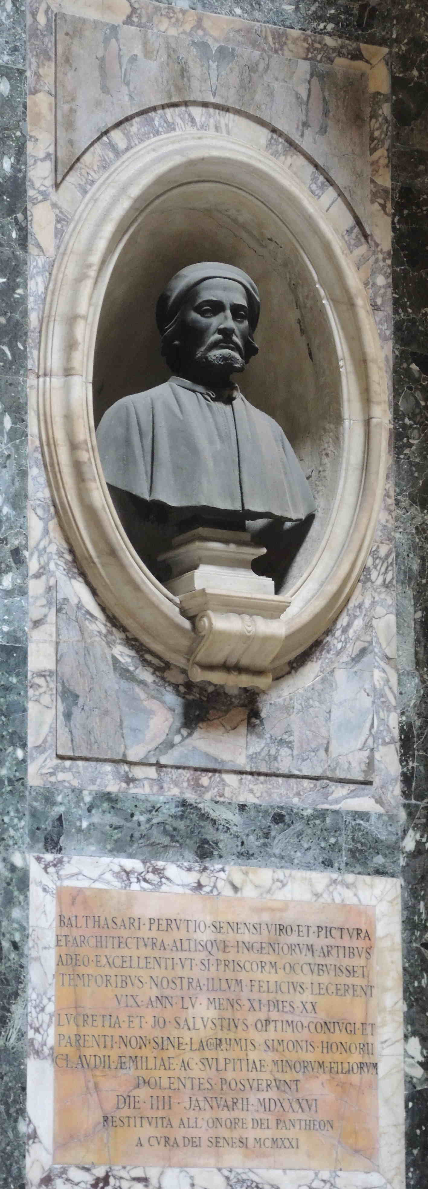 Bust and Epitaph of Baldassare Peruzzi in the Rotunda of the Pantheon, Rome, Italy.